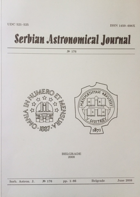 Насловна страна часописа